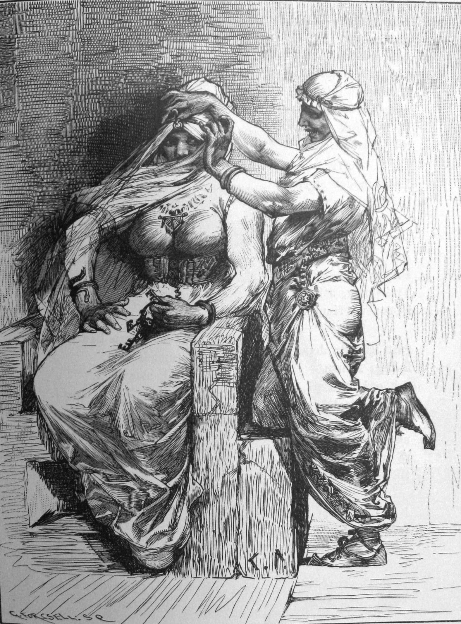 The engraving shows the god Thor dressed up as Freyja, with artificial breasts, a necklace (Brísingamen) and a keychain. Loki, also dressed as a woman, is fixing up Thor's headgear. Loki appears to be enjoying himself, Thor does not. The depiction closely follows the description in strophes 15-20 of Þrymskviða. Near the bottom middle there are the initials of Carl Larsson (1853-1919), the artist, written with runes. In the bottom left corner there is the signature of Gunnar Forssell (1859-1903), the xylographer. The image list on page 468 in the book describes this image as "Tor såsom Freya, Loke brudtärna", i.e. Tor (Thor, Þórr) as Freyja, Loke (Loki) as a bridesmaid.